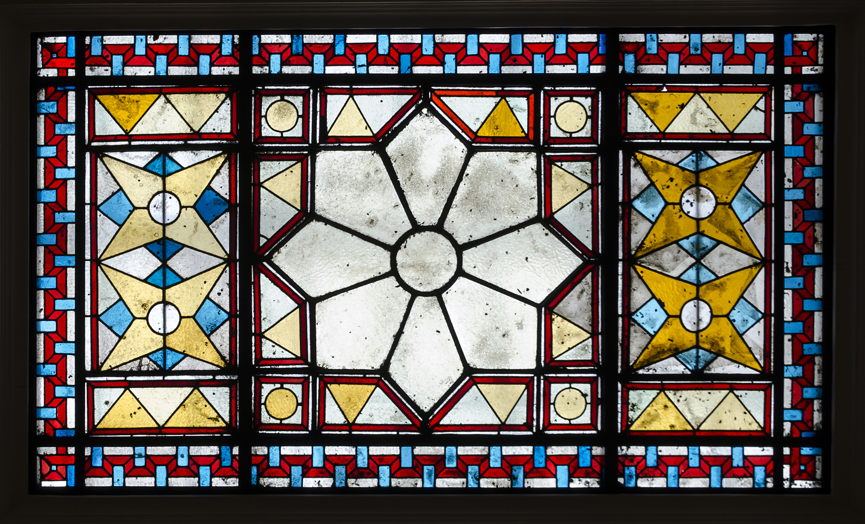 Town hall in Kłodzko, skylight